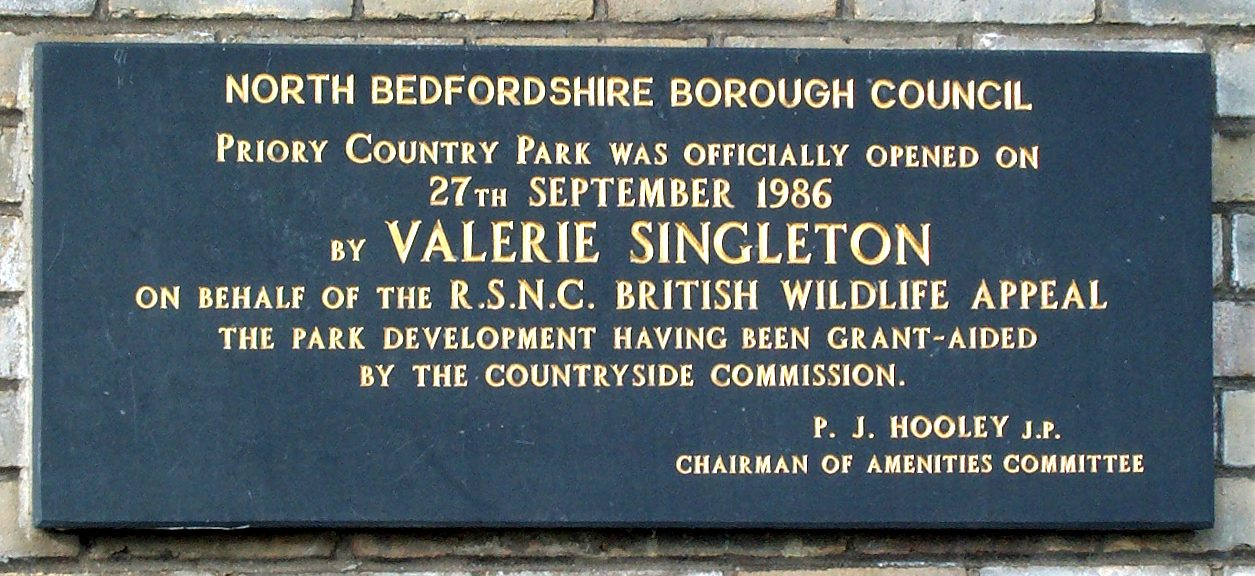 Plaque on the outside of the visitor's centre in Priory Country Park commemorating the park's opening in 1986 by Valerie Singleton.